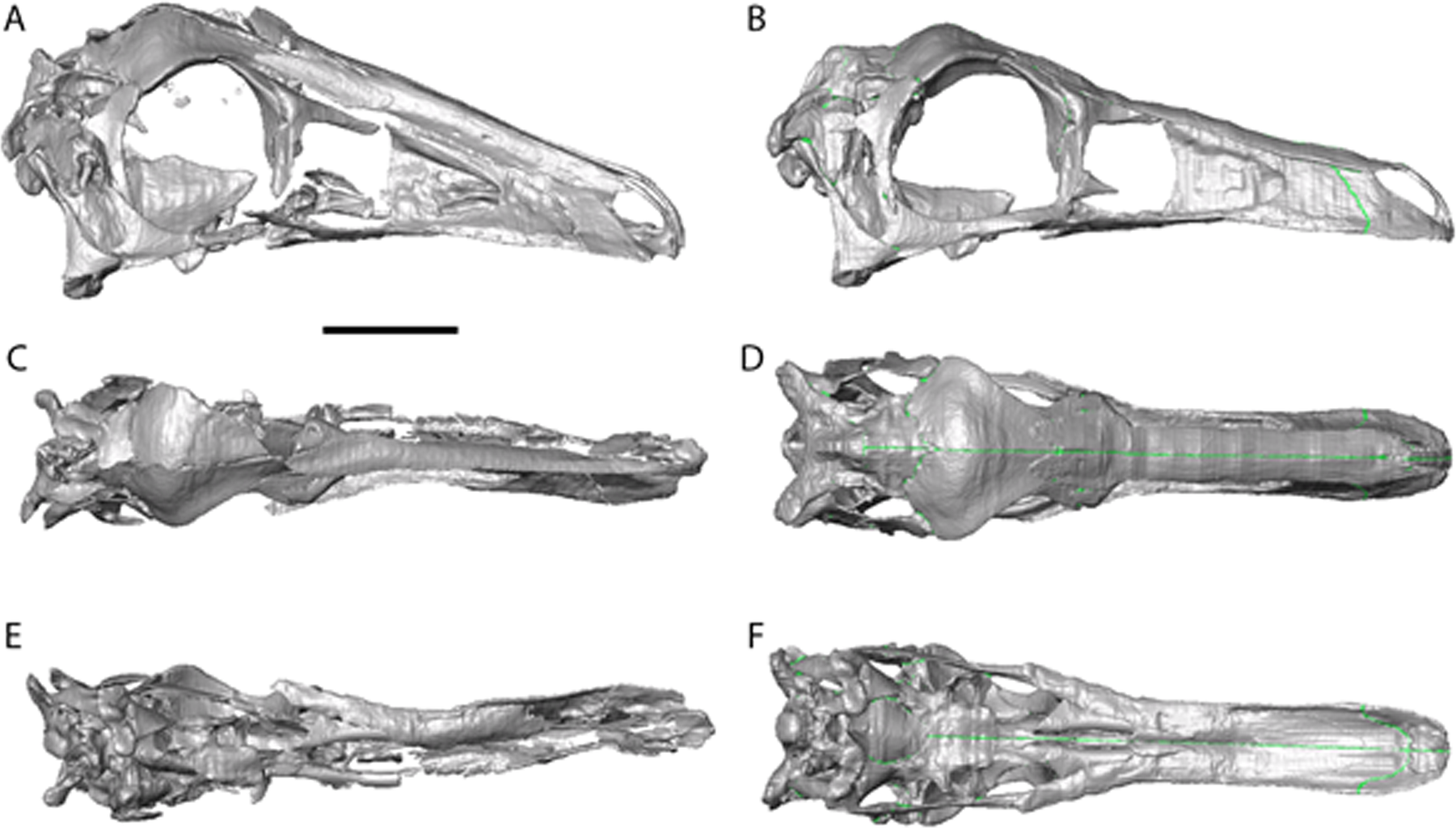 Garudimimus brevipes reconstruction (GIN 100/13). (A), (C), (E), original skull, (B), (D), (F), retrodeformed skulls. (A), (B), right lateral; (C), (D) dorsal; (E), (F), ventral views. Scale bar = 5 cm. See Video S1 and Video S2 showing video of the skull before and after retrodeformation.